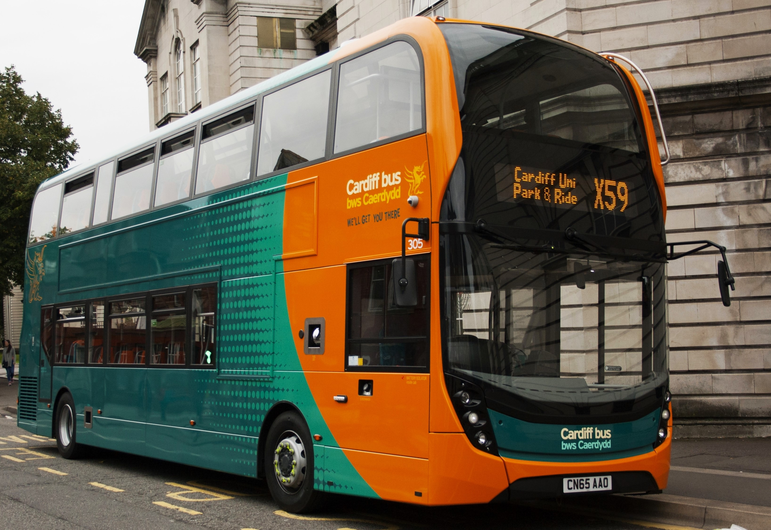 Cardiff Bus Enviro 400 CN65 AAO is seen on Park Place in Cardiff, whilst working the shuttle service between Cardiff University and Cardiff East Park and Ride.